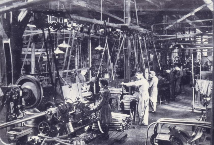 This week’s image is of the factory workers at Armstrong Patents Limited circa 1940, at the Beverley factory site between Eastgate and Station Square. The company’s founder was mechanical engineer and inventor, Gordon Armstrong who, in 1935, formed the Armstrong Patents Company Ltd for shock absorbers. Having patented the original idea for efficient shock absorbers on motor vehicles, Gordon Armstrong made a huge contribution to the motor industry with his invention, providing a vast improvement in passenger comfort. In 1907 he opened his first garage in Tiger Lane and by 1927 the shock absorber had been adopted by one of the largest motor car manufacturers in England. By the 1930s the company really began to flourish, and Armstrong also opened a garage and engineering works based in Hull, offering a twenty four hour service. The Beverley factory was demolished during the 1970s and the site re-developed as housing. (Why not try searching our East Riding of Yorkshire Map for more historic images? ) (Copyright) We're happy for you to share this digital image within the spirit of Creative Commons. Please cite ' ' when reusing. Certain restrictions on high quality reproductions and commercial use of the original physical version apply. If unsure please